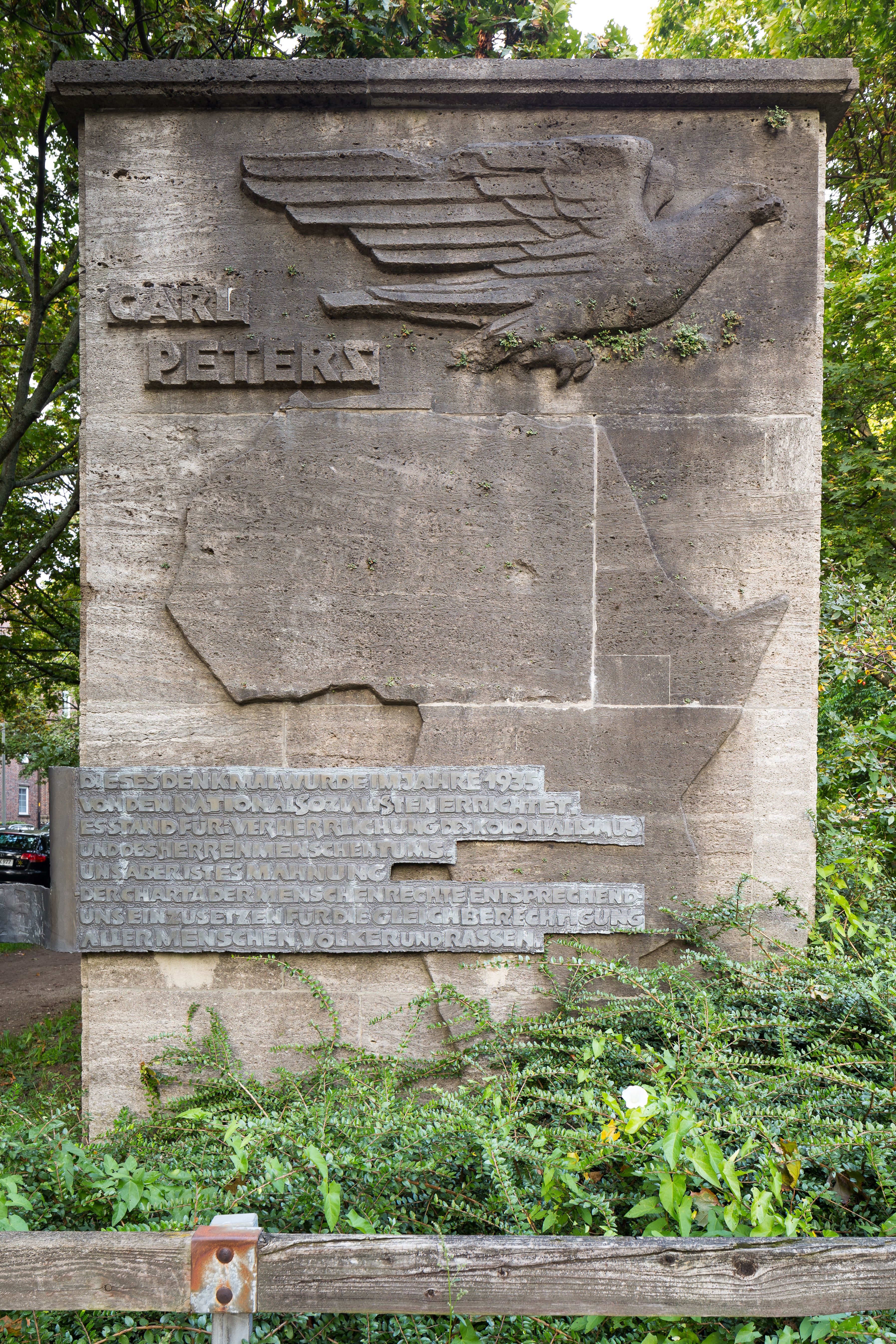 Monument for Carl Peters (with critical information added) located at Bertha-von-Suttner square in Suedstadt district of Hanover, Germany.